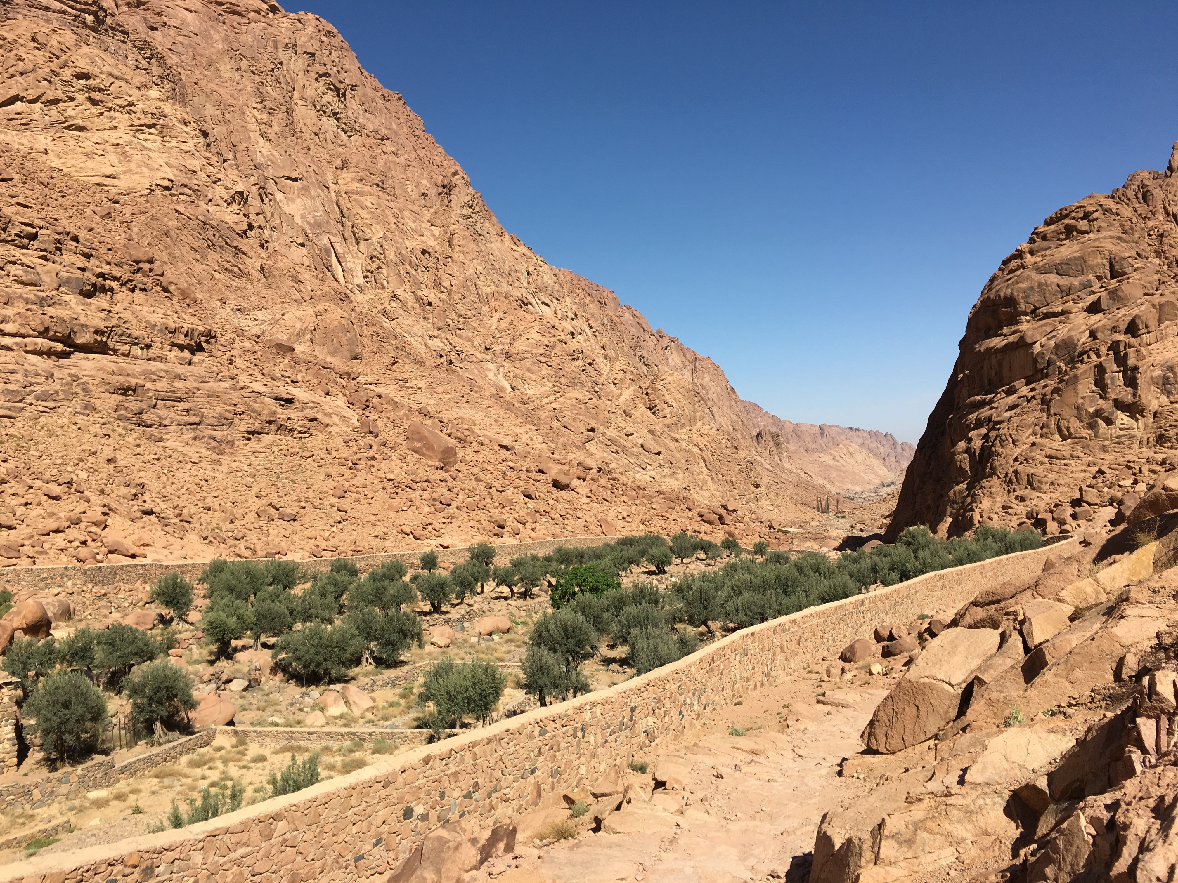 Saint Catherine Protected Area , photo by Hatem Moushir